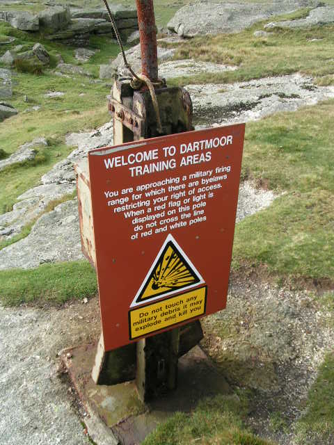 MOD Danger Area Flagpole. This is a closeup of the Flagpole on the top of Roos Tor. It's in a pretty poor state, the pole being very rusty and rather wonky.